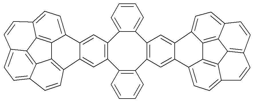 Buckycatcher